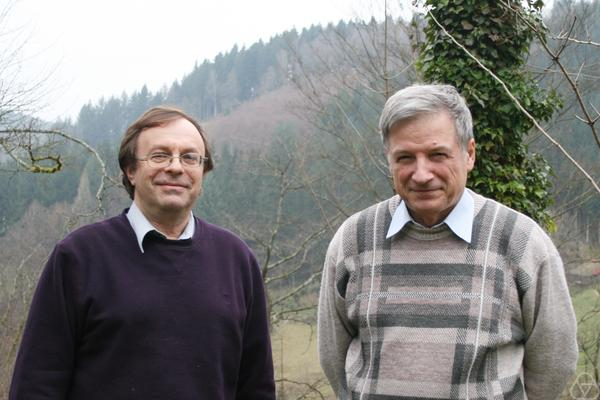 On the Photo: Volberg, Alex (left), Vasyunin, Vasily (right) - Occasion:Research in Pairs 2013 - Location: Oberwolfach - Author: Vetter, Ivonne - Source: MFO - Year: 2013 - Copyright: MFO - Photo ID: 17334